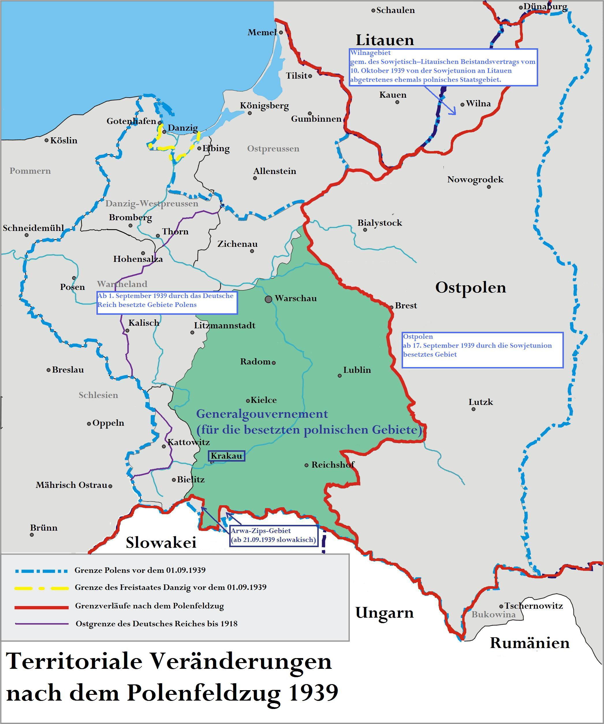 Territorial changes after the Invasion of Poland in 1939